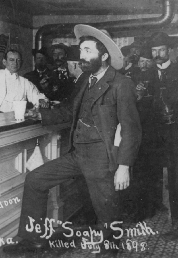 Jefferson "Soapy" Smith standing at bar in saloon in Skagway, Alaska. July 1898.